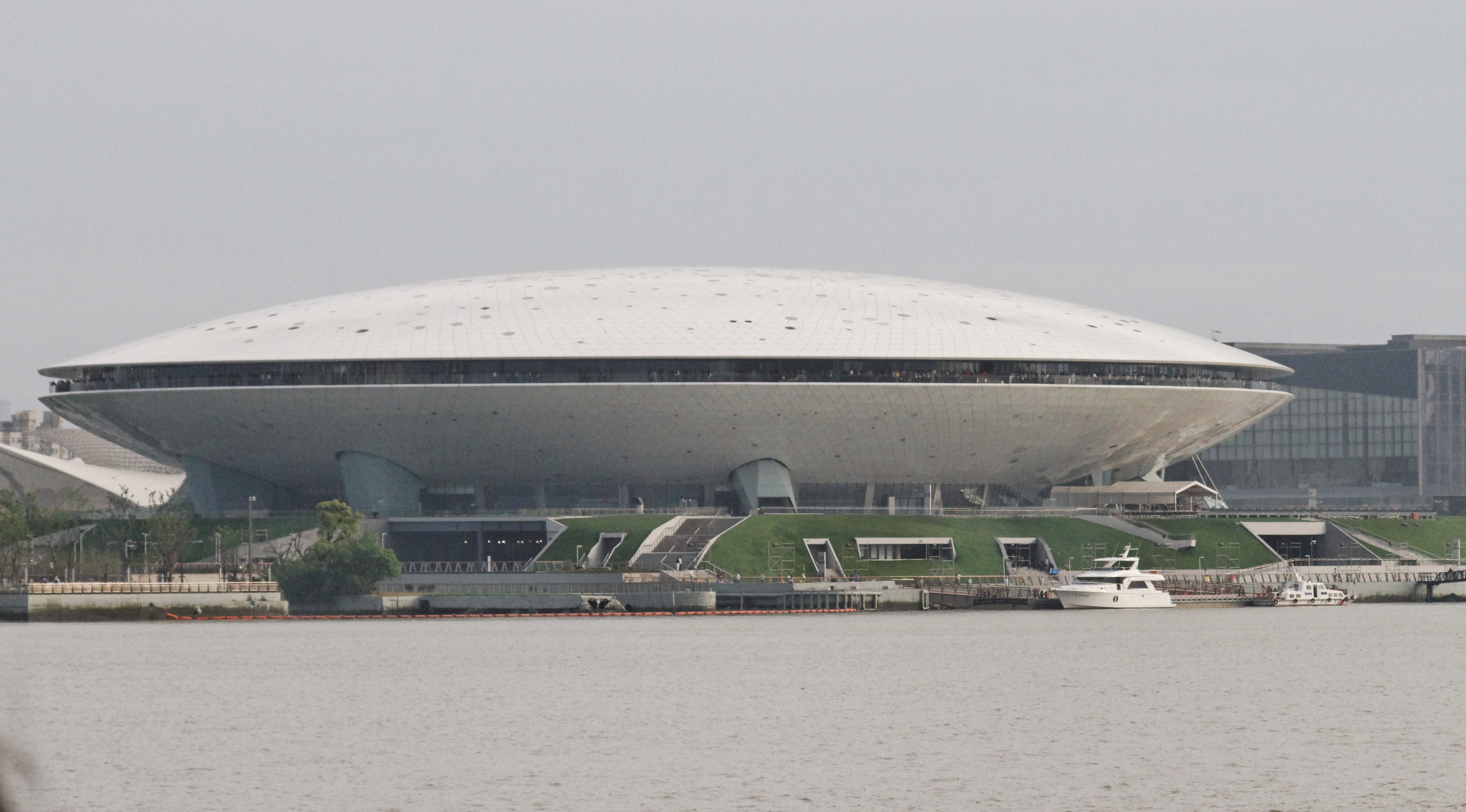 Expo Culture Center, Expo 2010, seen from the river